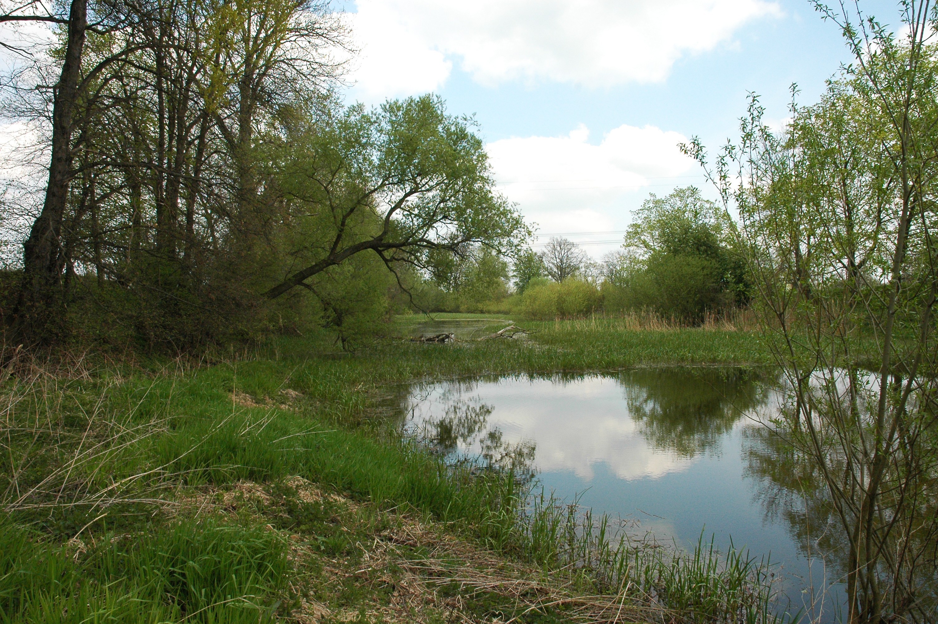 Natural monument Labské rameno Votoka in Pardubice District, Czech Republic